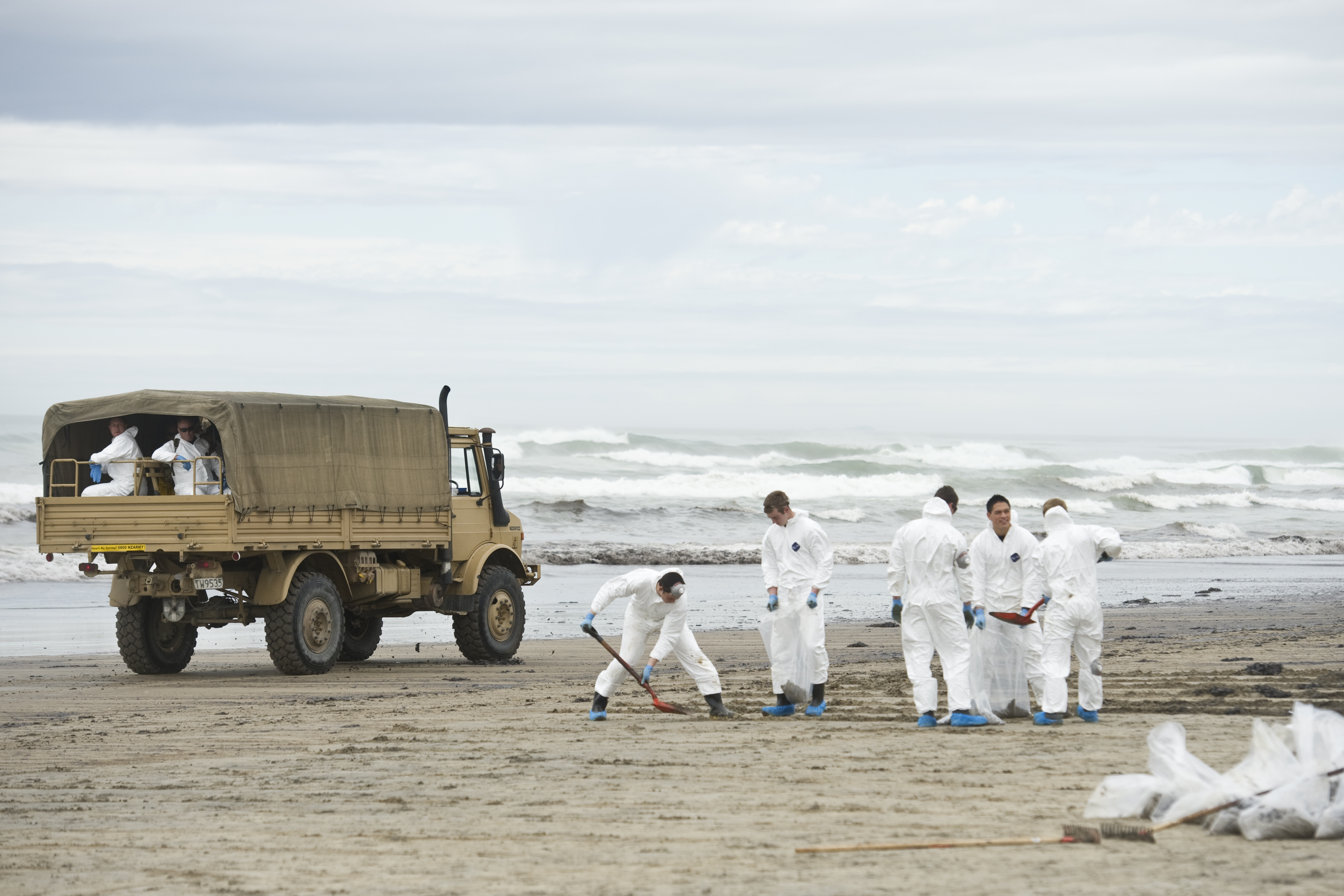 Army soldiers cleaning Papamoa Beach after oil from the grounded ship Rena reached shore.